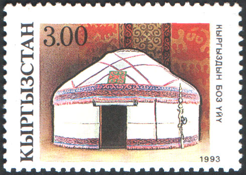 Stamp of Kyrgyzstan